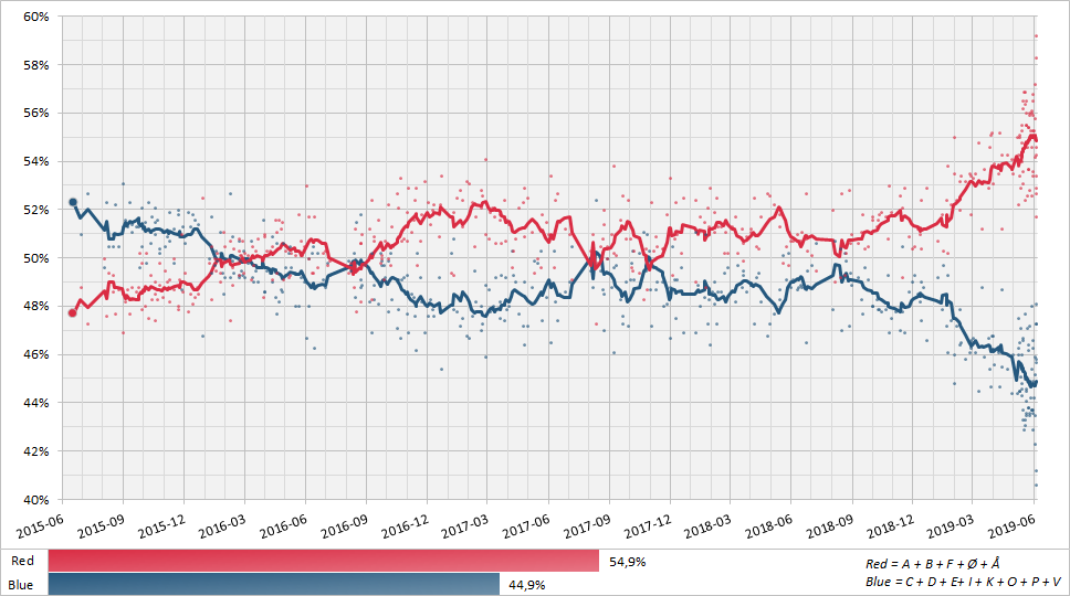 Graph showing a 30 day moving poll average (15 day average from 2019-05-06, 30 days before the election) of the danish opinion polls towards the general election in 2019